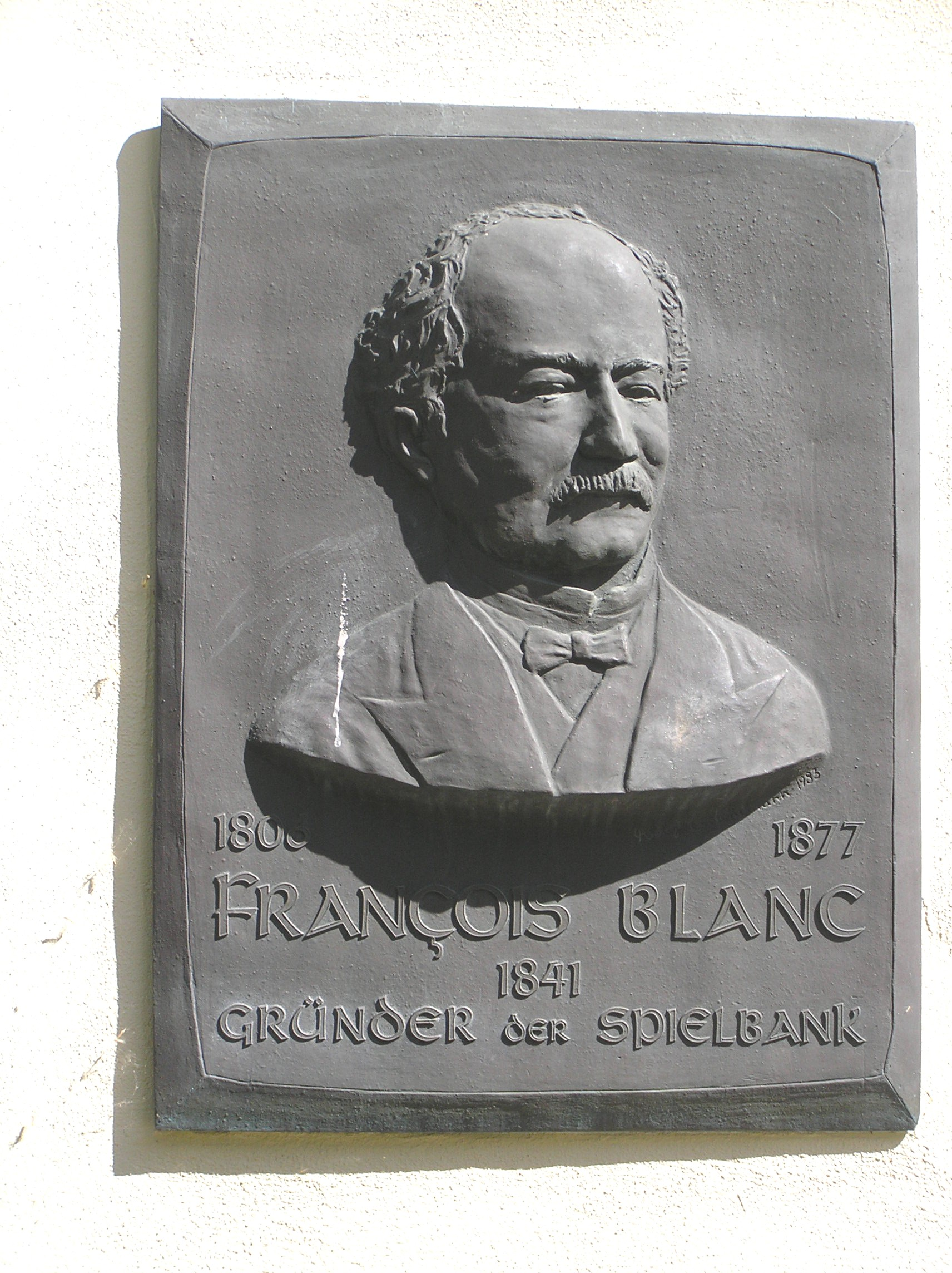 François Blanc, founder of the Casino Bad Homburg, Germany